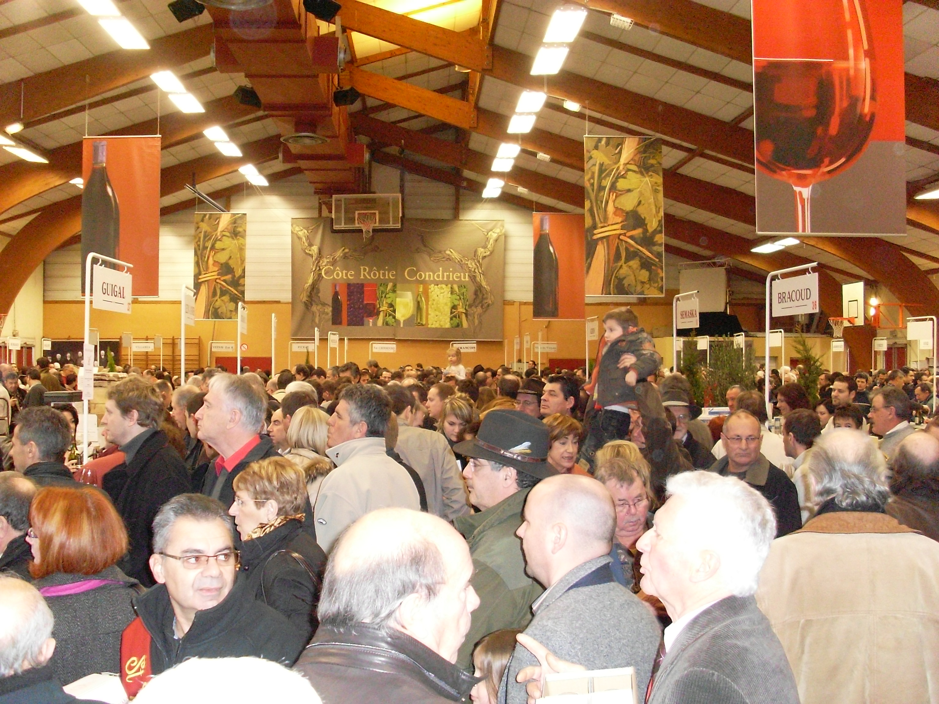 Ampuis Wine market